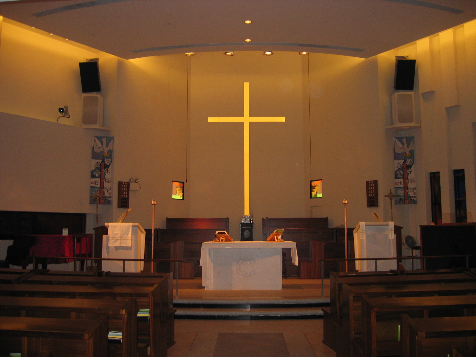 CrownOfThornsChurch_03.jpg